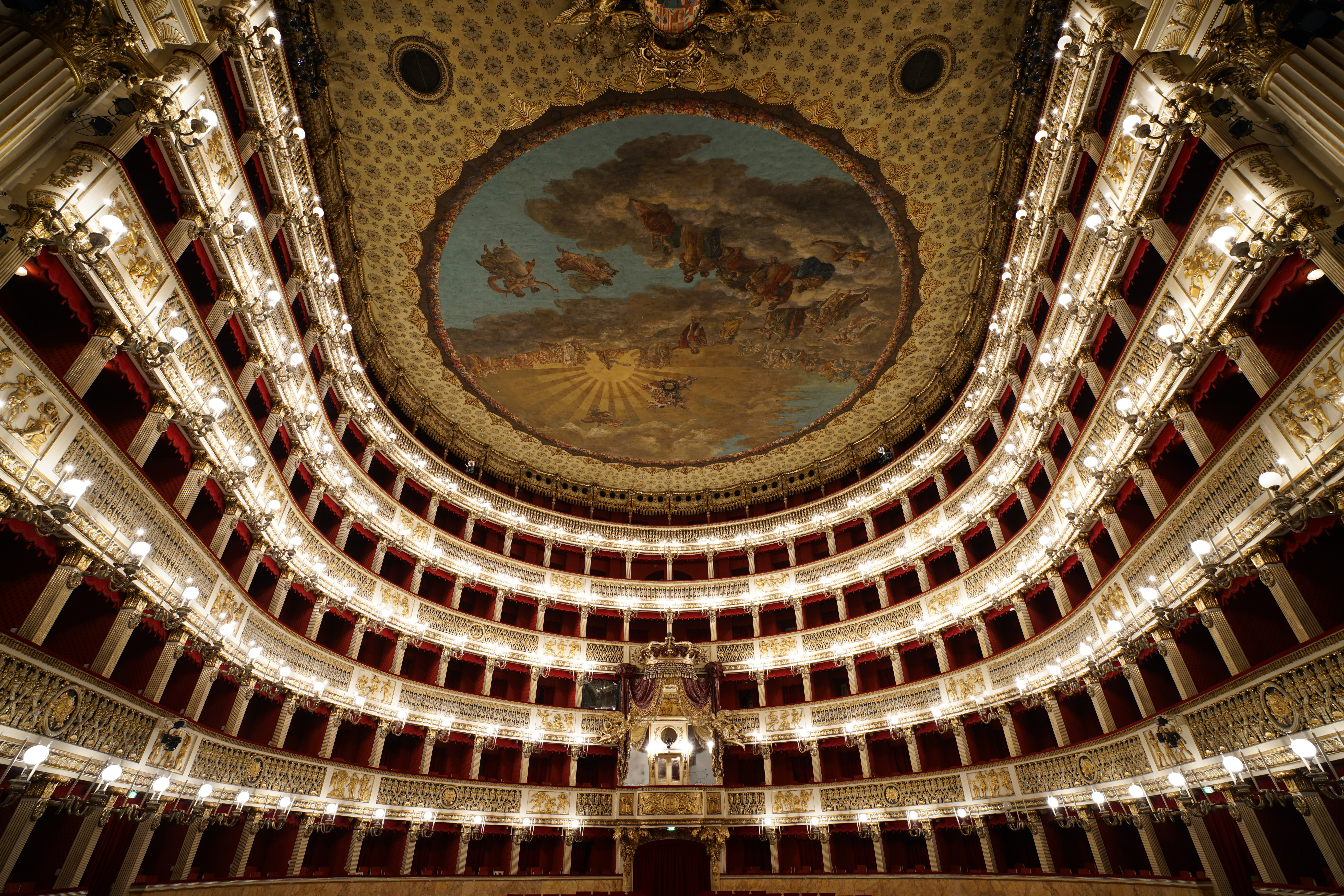 Large view of the Teatro San Carlo.